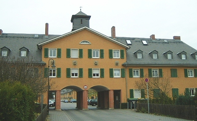 Eisenbahnersiedlung in Nied, a part of Frankfurt/Germany. A settlement of railwayworkers from the 1920 years